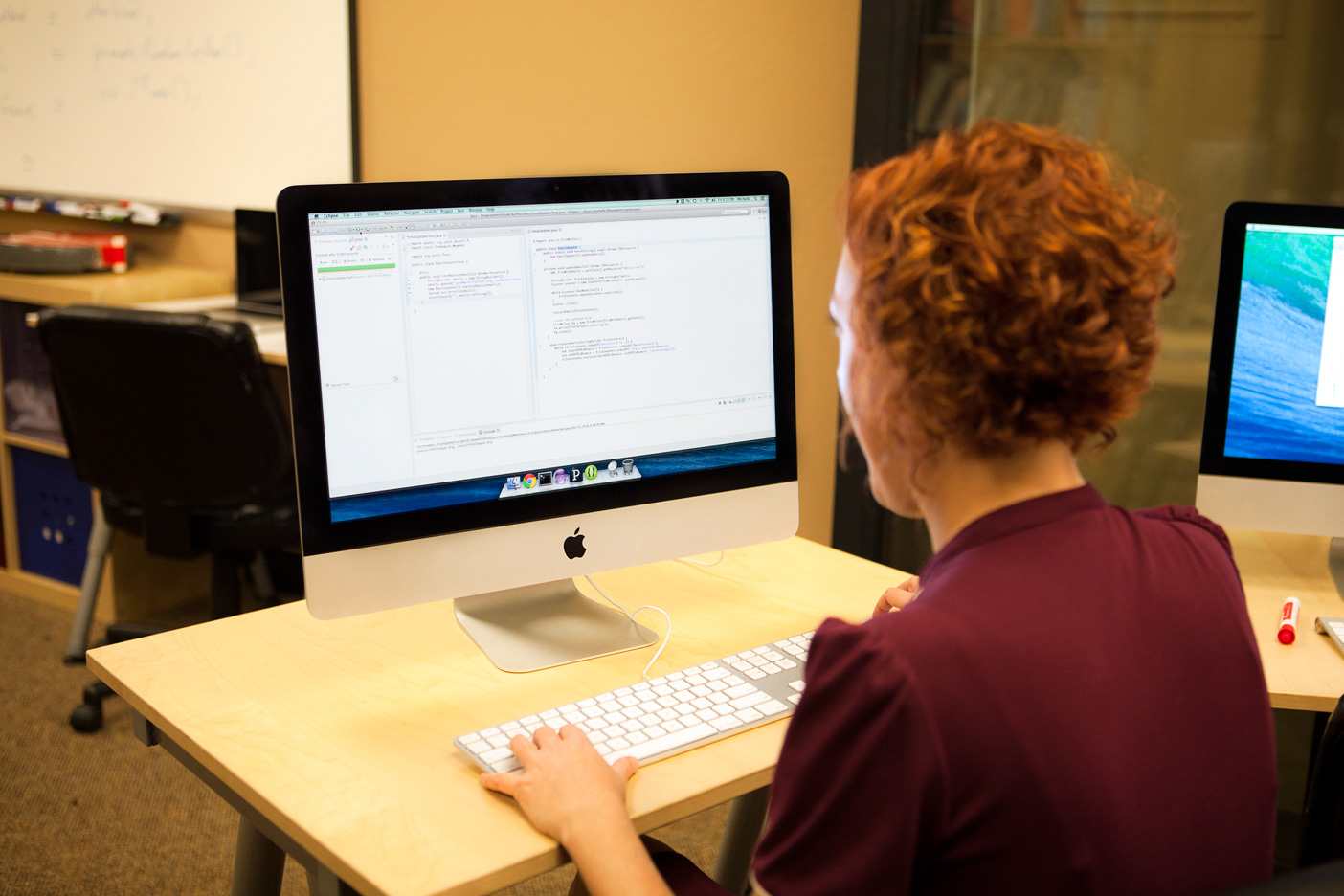 A female programmer writing Java code with JUnit